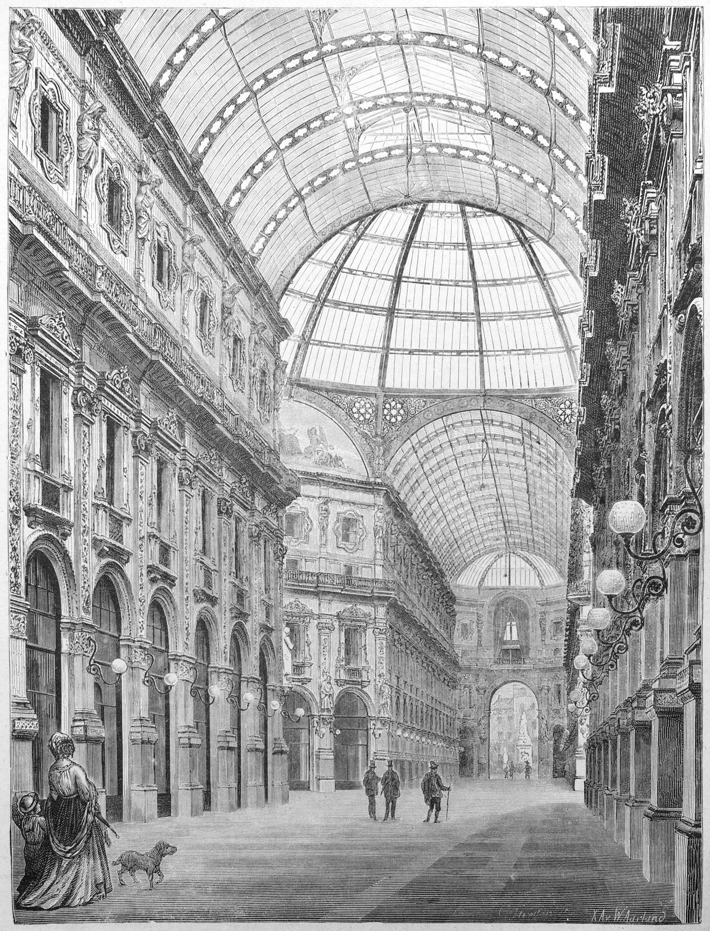 caption: "Die Victor-Emanuel-Galerie in Mailand."